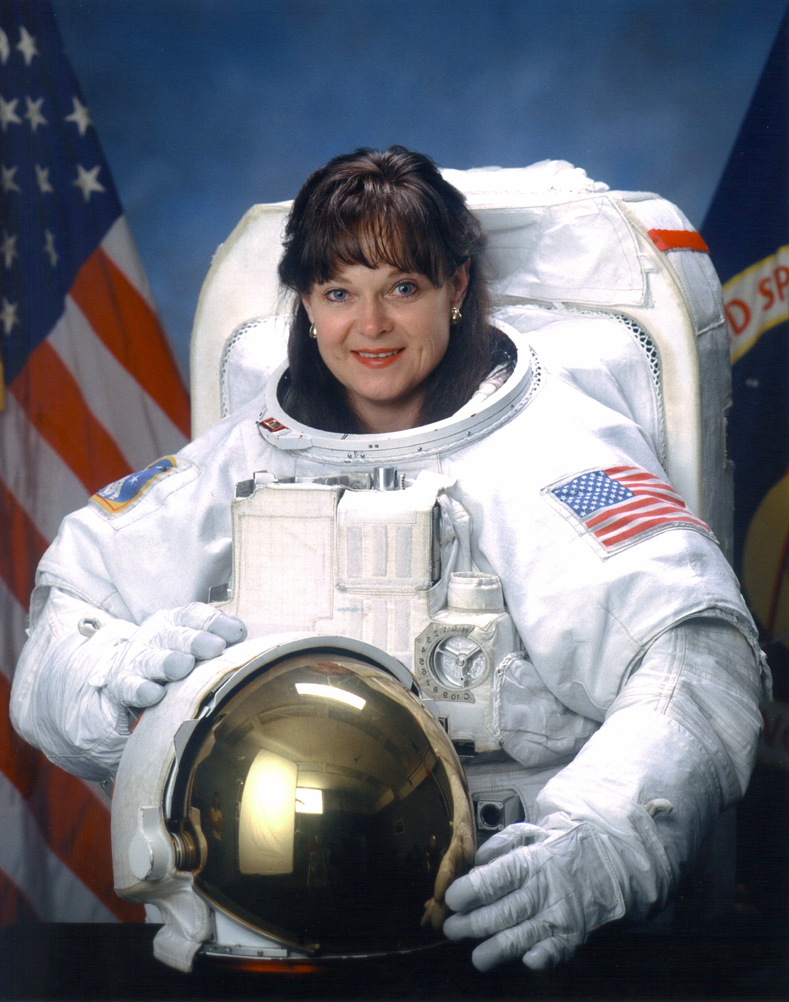 Astronaut Tamara E. Jernigan in an Extravehicular Mobility Unit (EMU) spacesuit